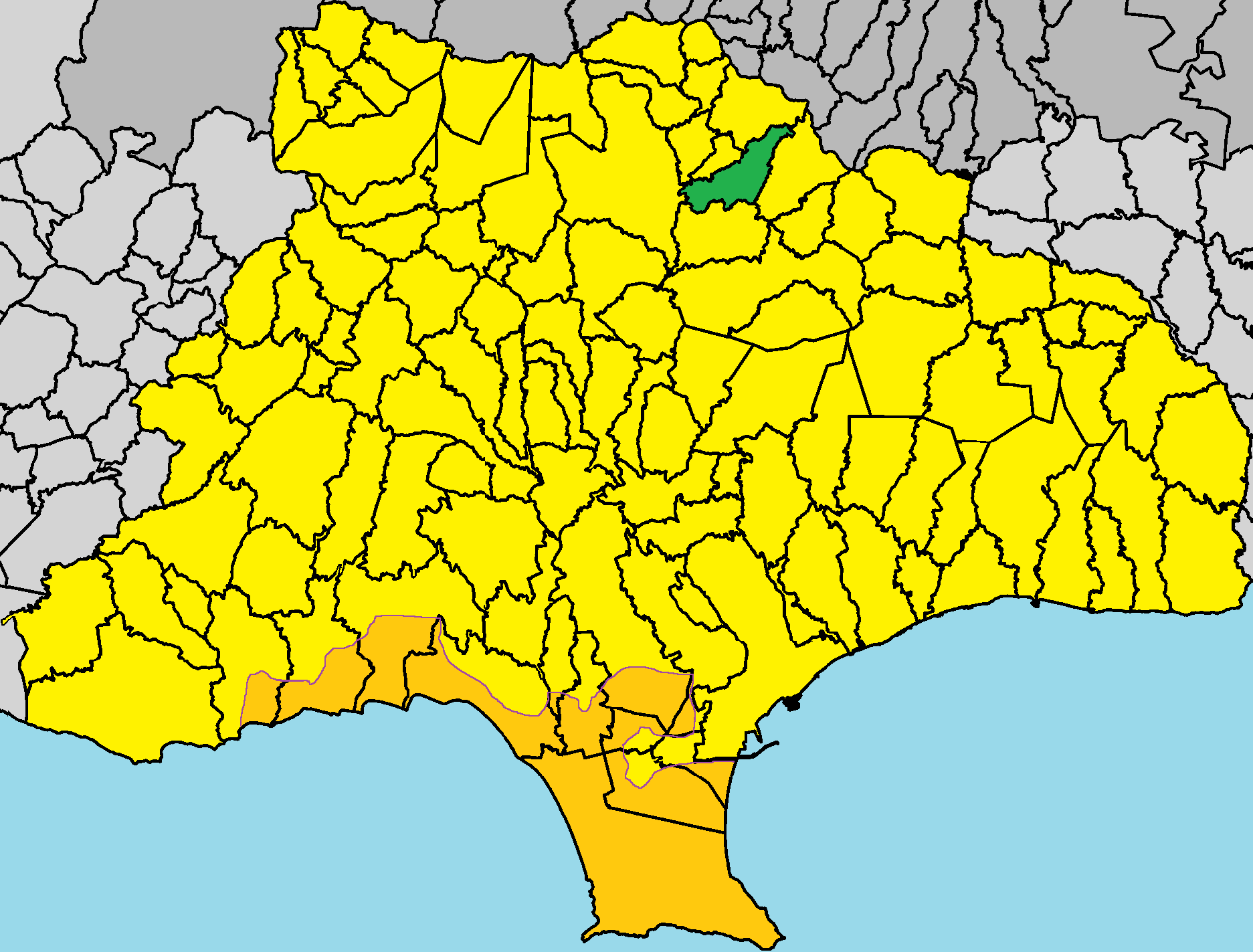 Agios Ioannis, Limassol in Limassol District.